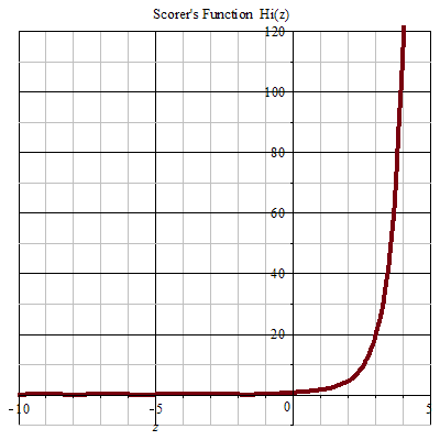 Scorers Hi Function